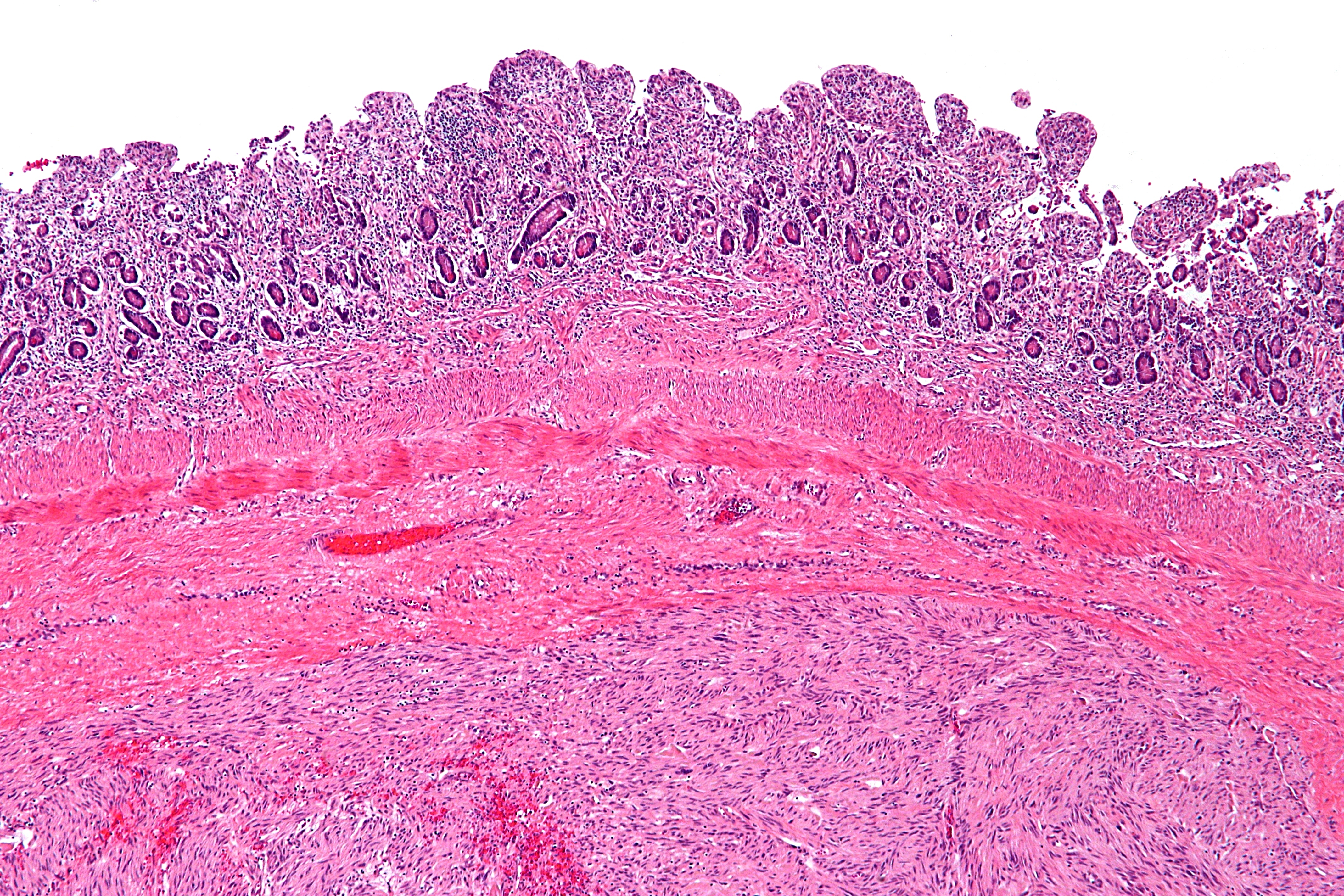 Low magnification micrograph of a gastrointestinal stromal tumour, abbreviated GIST. H&E stain. Related images Very low mag. Low mag. Intermed. mag. High mag. Very high mag.